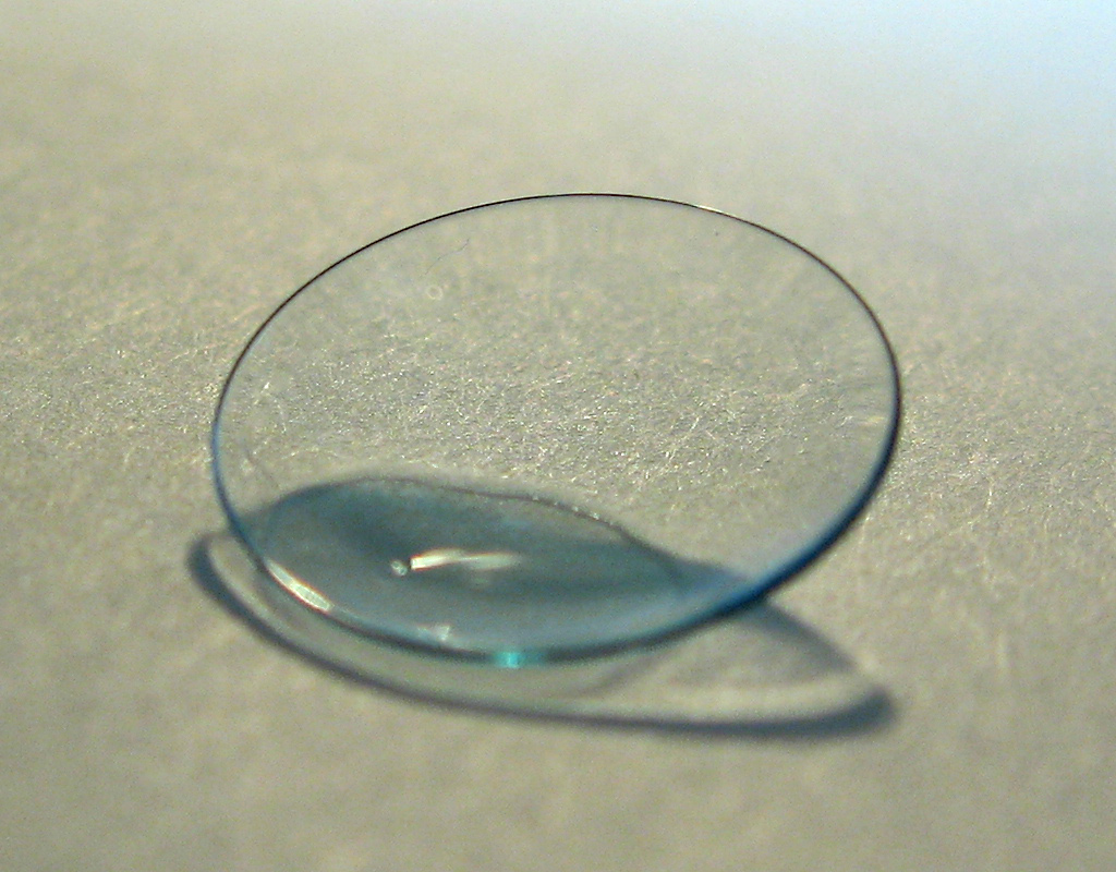 A so called "oxygen pass through" lens.